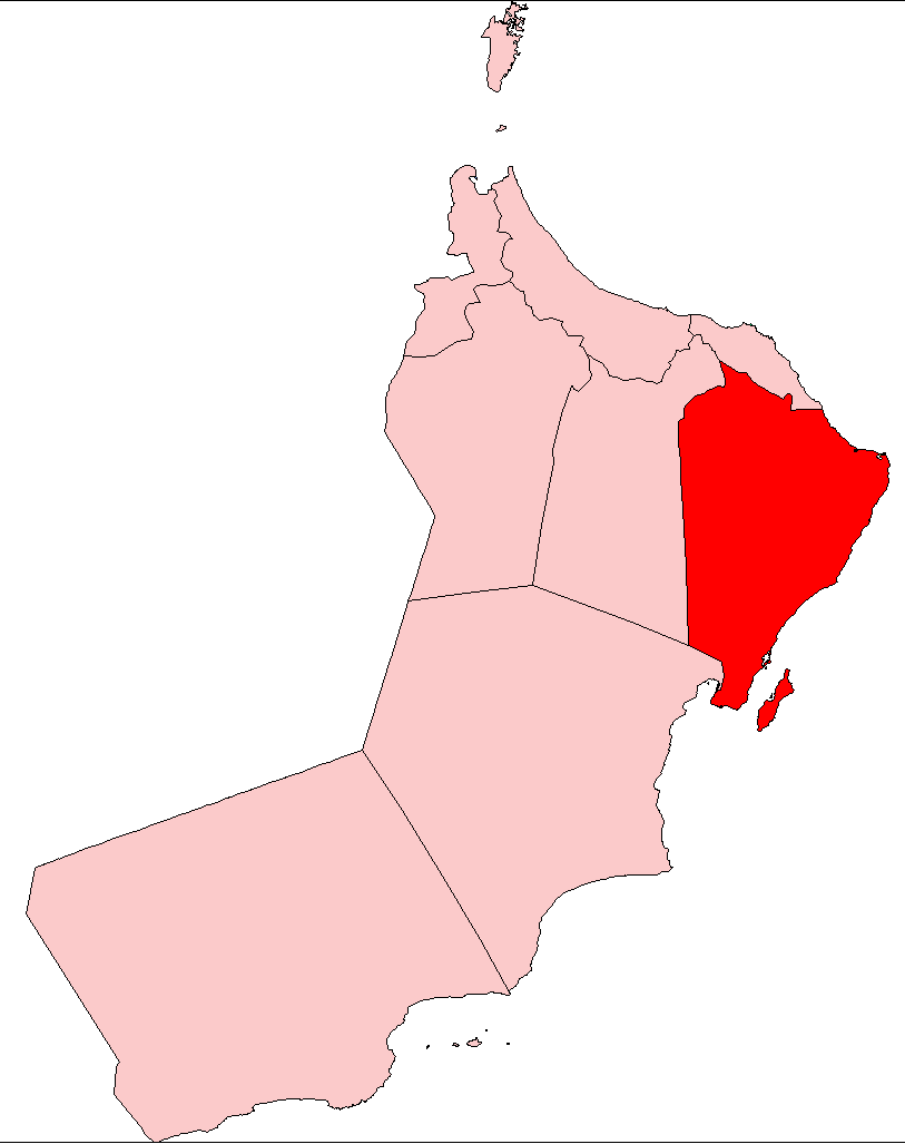 Map of ash-Sharqiya region, Oman